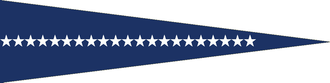 Commander pennant of Brazil